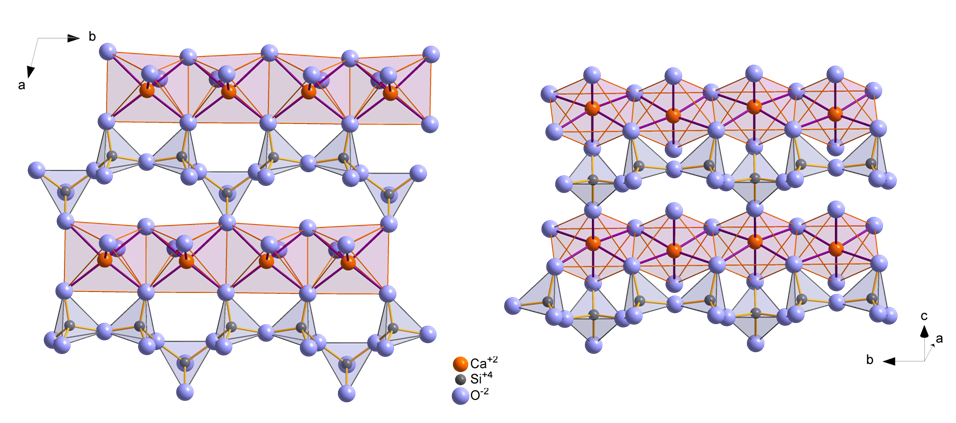 Connection of silicate chains through [CaO6] octahedra in direction of [100] and [001] in Wollastonite (Verknüpfungsmuster der Silikatketten und [CaO6]-Oktaeder in Richtung de a- und c-Achse in Wollastonit)